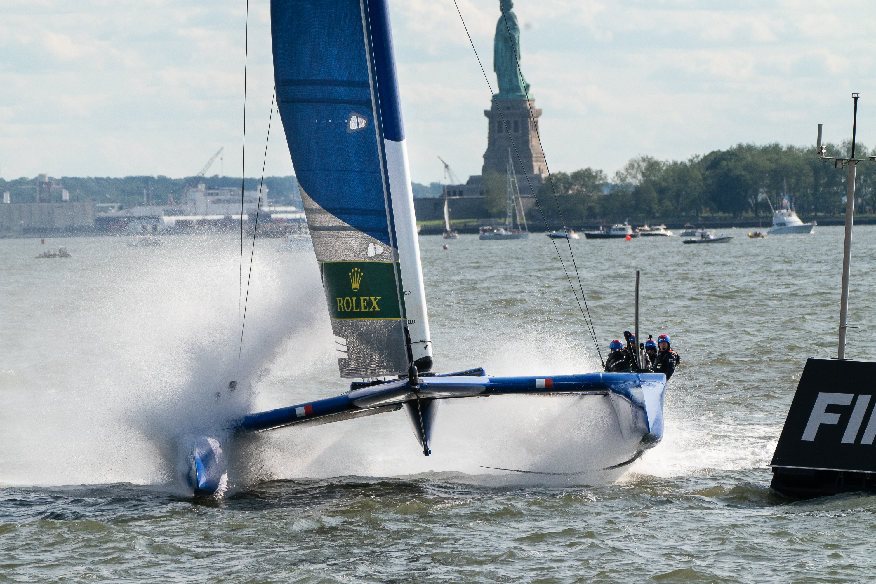 SAILGP French Team crossing the finish line